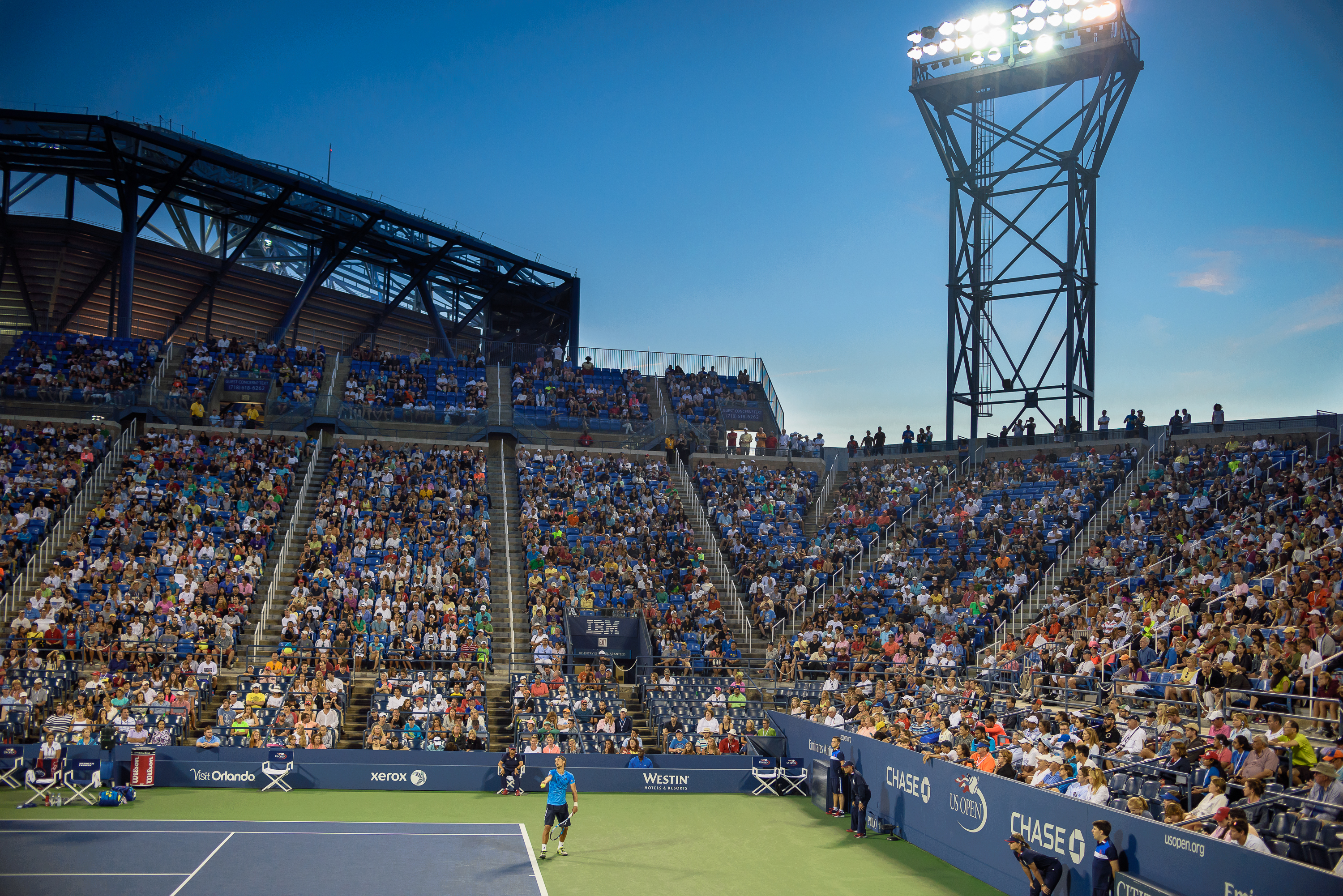 September 5, 2015 Louis Armstrong Stadium Flushing, NY